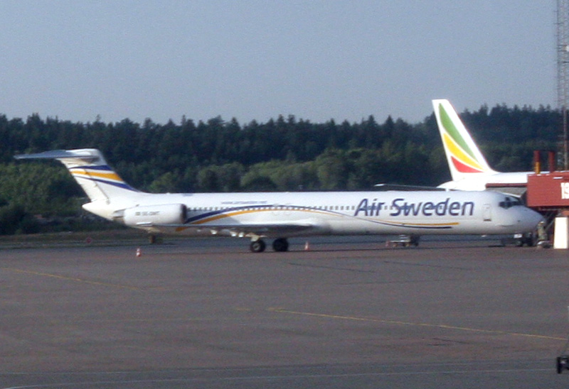 Air Sweden MD-80